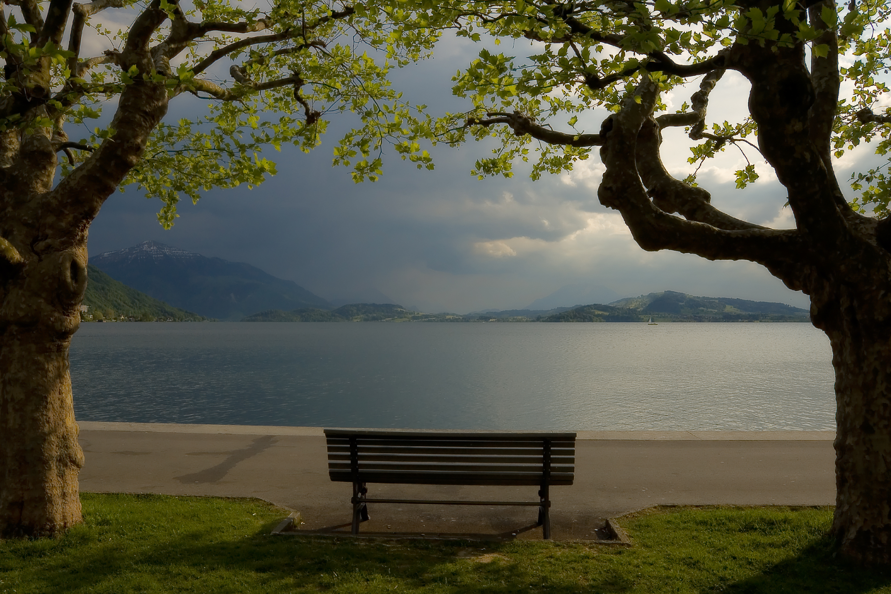 Lake Zug with mount Rigi in the background, Zug, Switzerland.